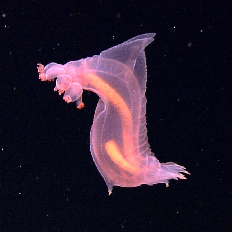 A spectacular image of a benthopelagic sea cucumber swimming in the near freezing waters of the abyss.Image captured by the Little Hercules ROV at 3205 meters depth on "Site K," explored July 27, 2010 during the INDEX SATAL 2010 Expedition. Image courtesy of NOAA Okeanos Explorer Program, INDEX-SATAL 2010.